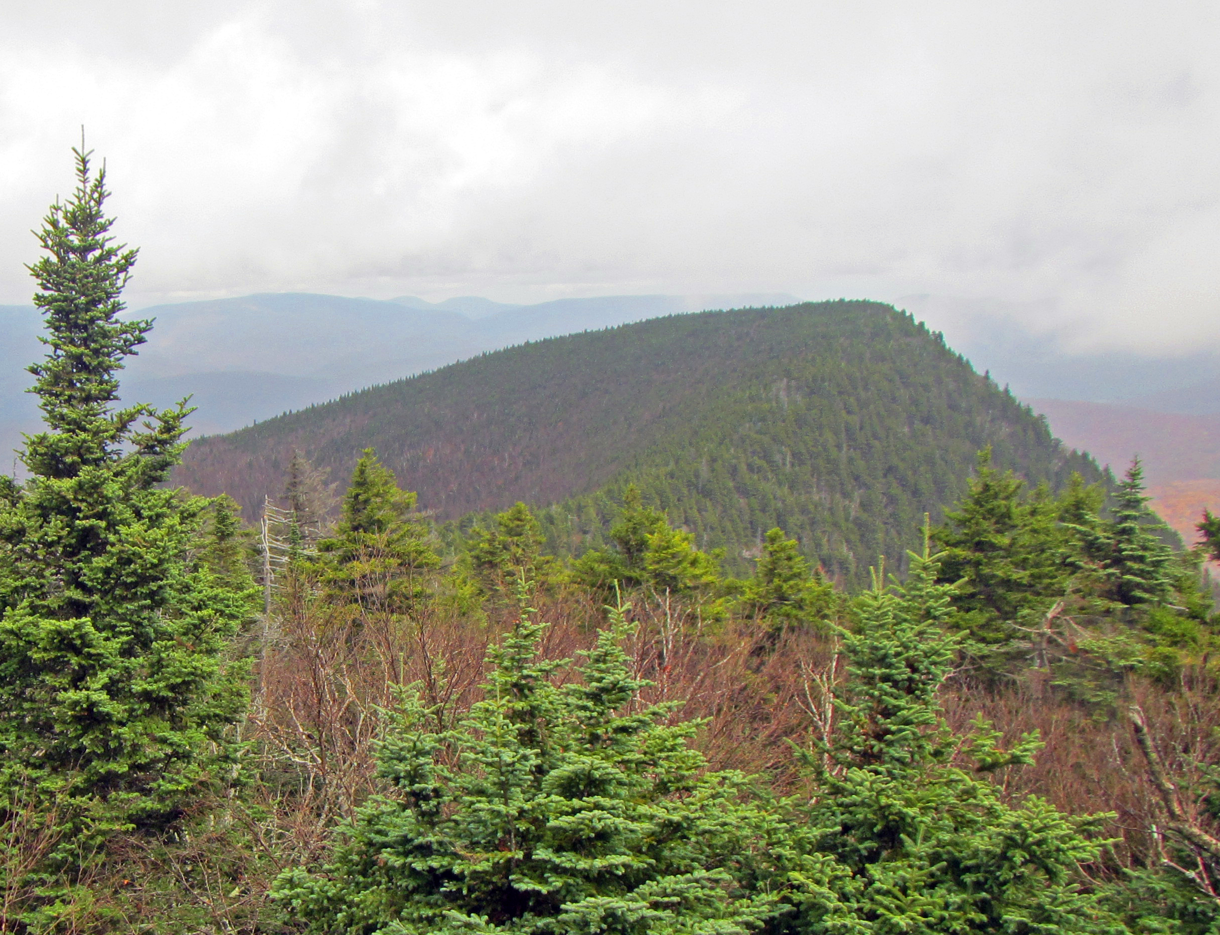 Wittenberg Mountain from nearby Cornell, in the Burroughs Range of New York's Catskills